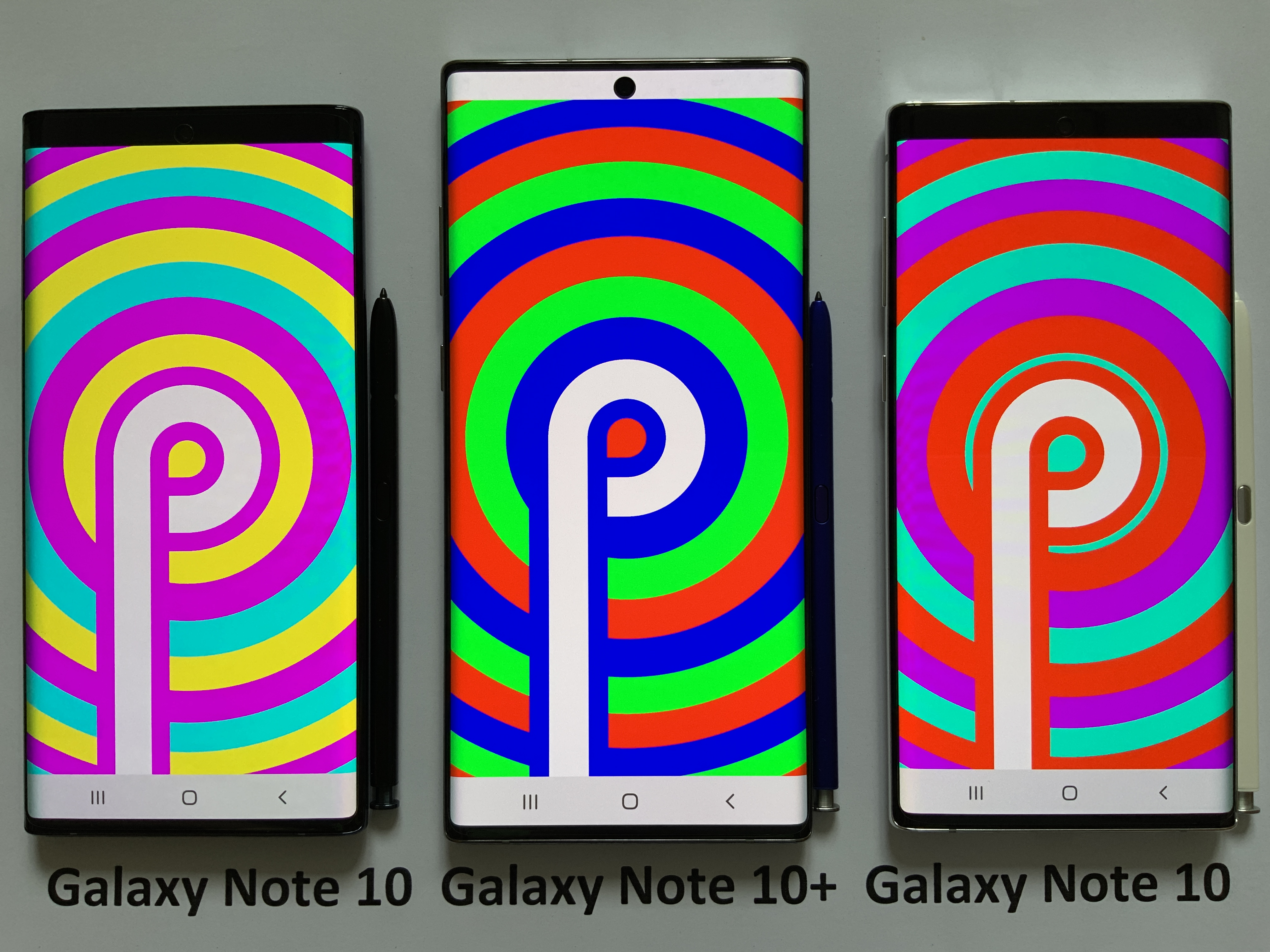 Android Pie Easter eggs shown on Samsung Galaxy Note 10